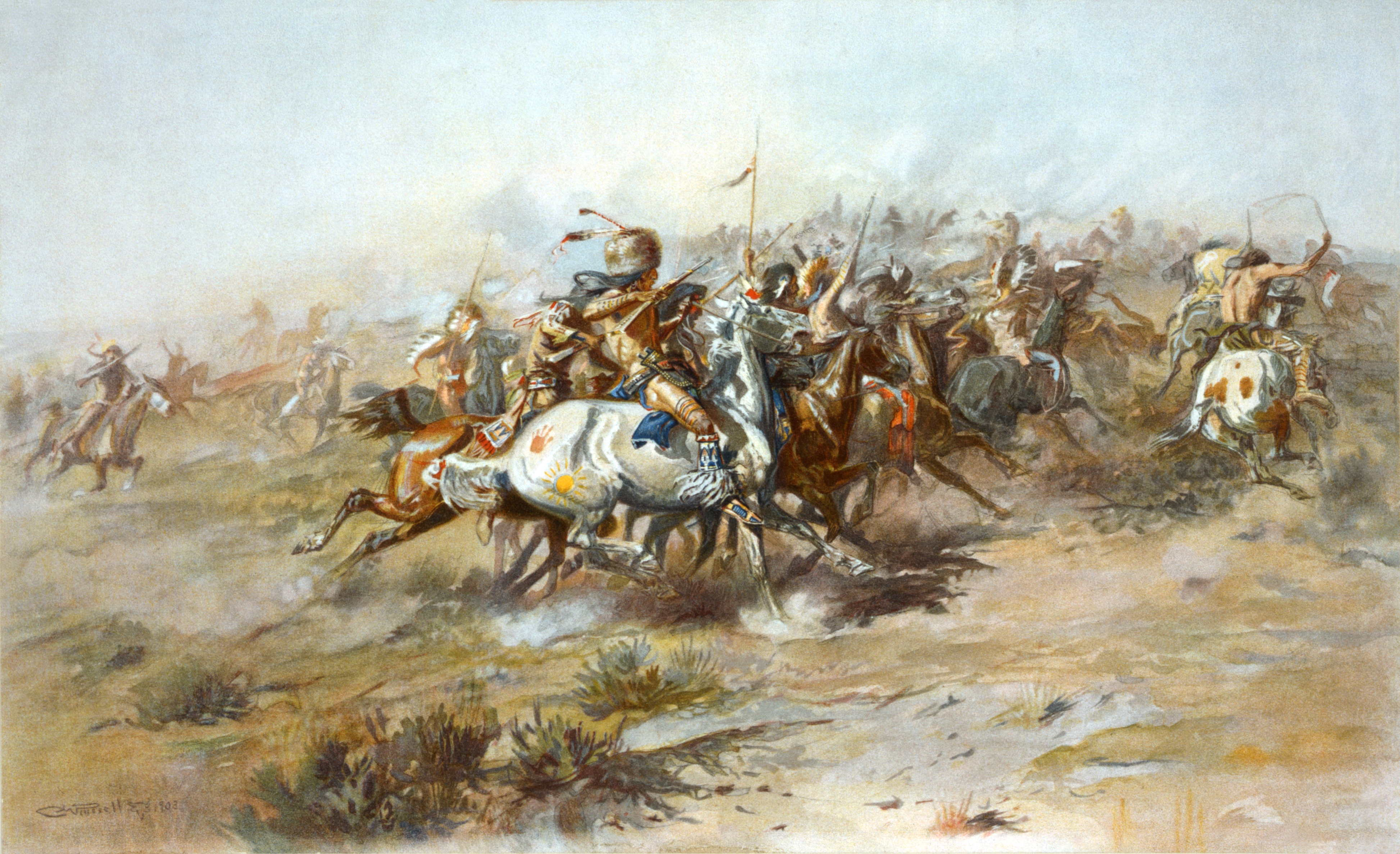 "The Custer Fight" by Charles Marion Russell. Lithograph. Shows the Battle of Little Bighorn, from the Indian side.